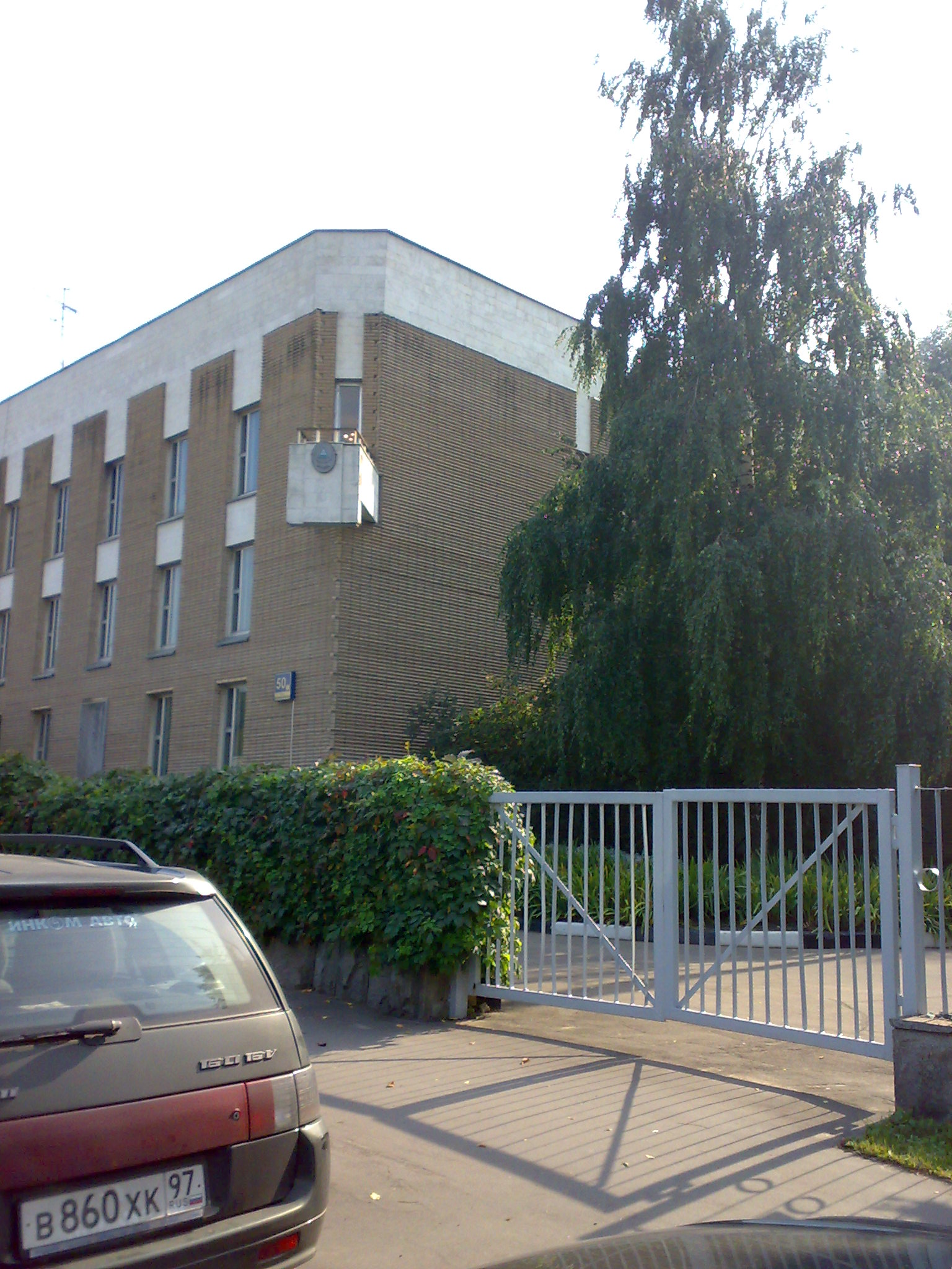 took this image using my mobile phone, on 5 September, 2008. The embassy of Nicaragua, in Moscow.